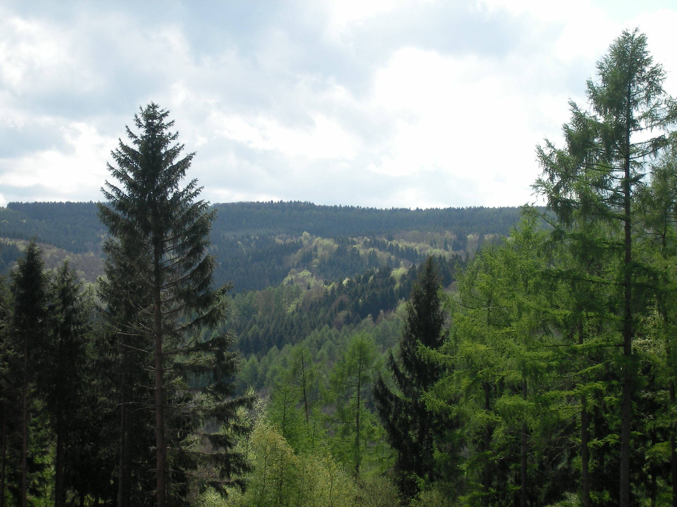 Giebelwald. Forests near Niederndorf (Freudenberg by Siegen, Germany)